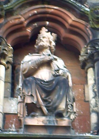 Statue of Peada of Mercia at Lichfield Cathedral